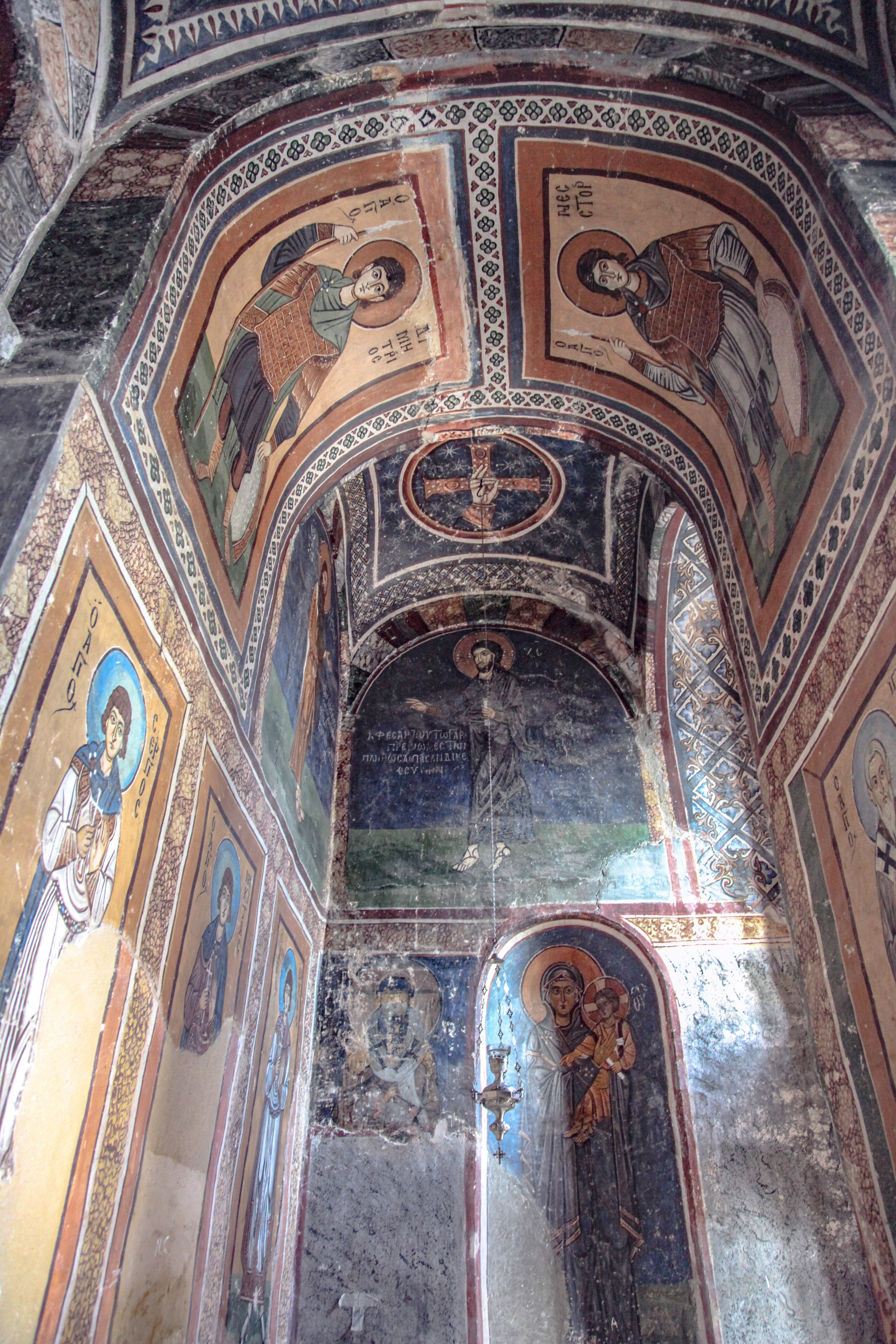 Monastery of Hosios Loukas